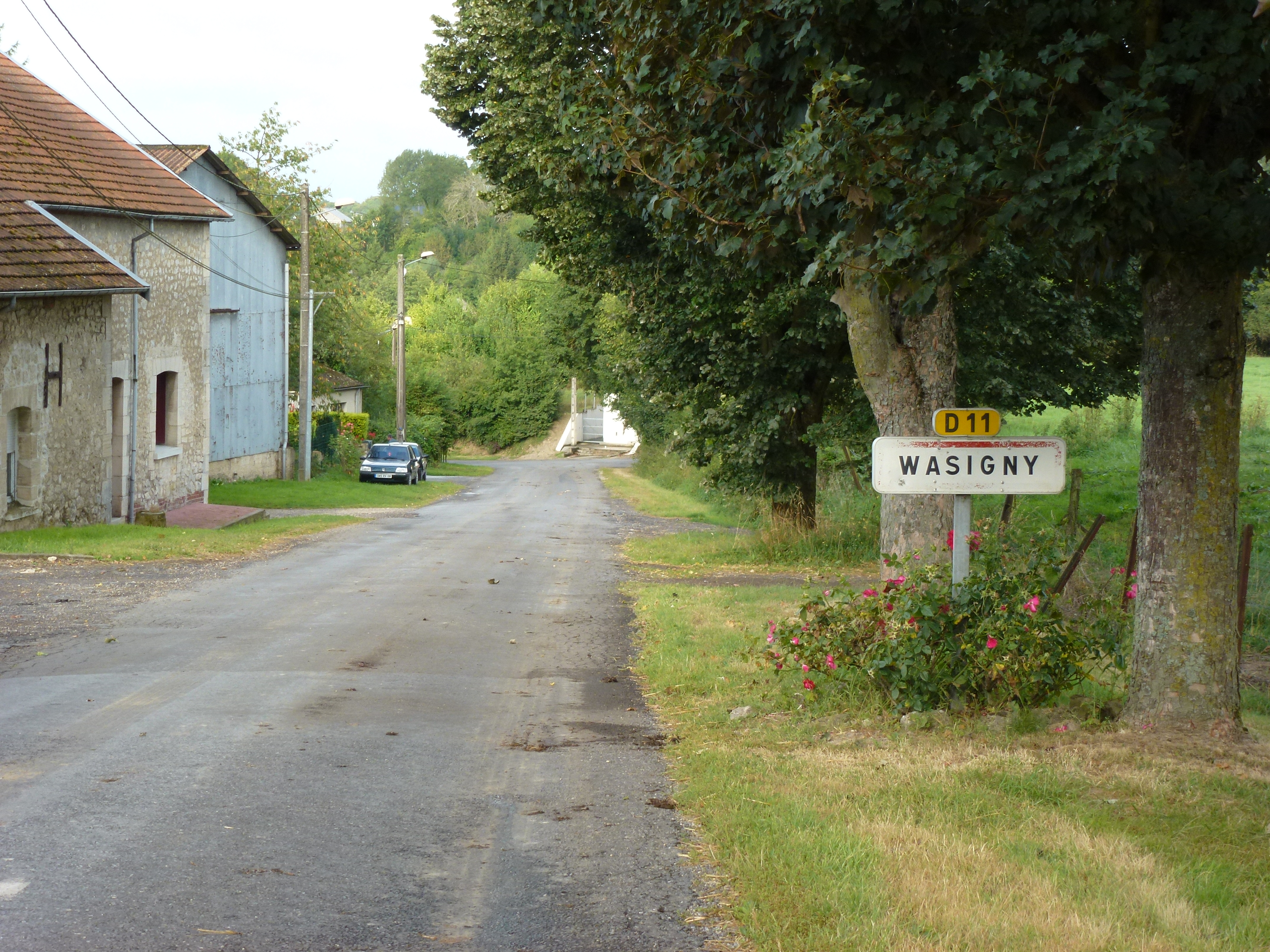 Wasigny(Ardennes) city limit sign